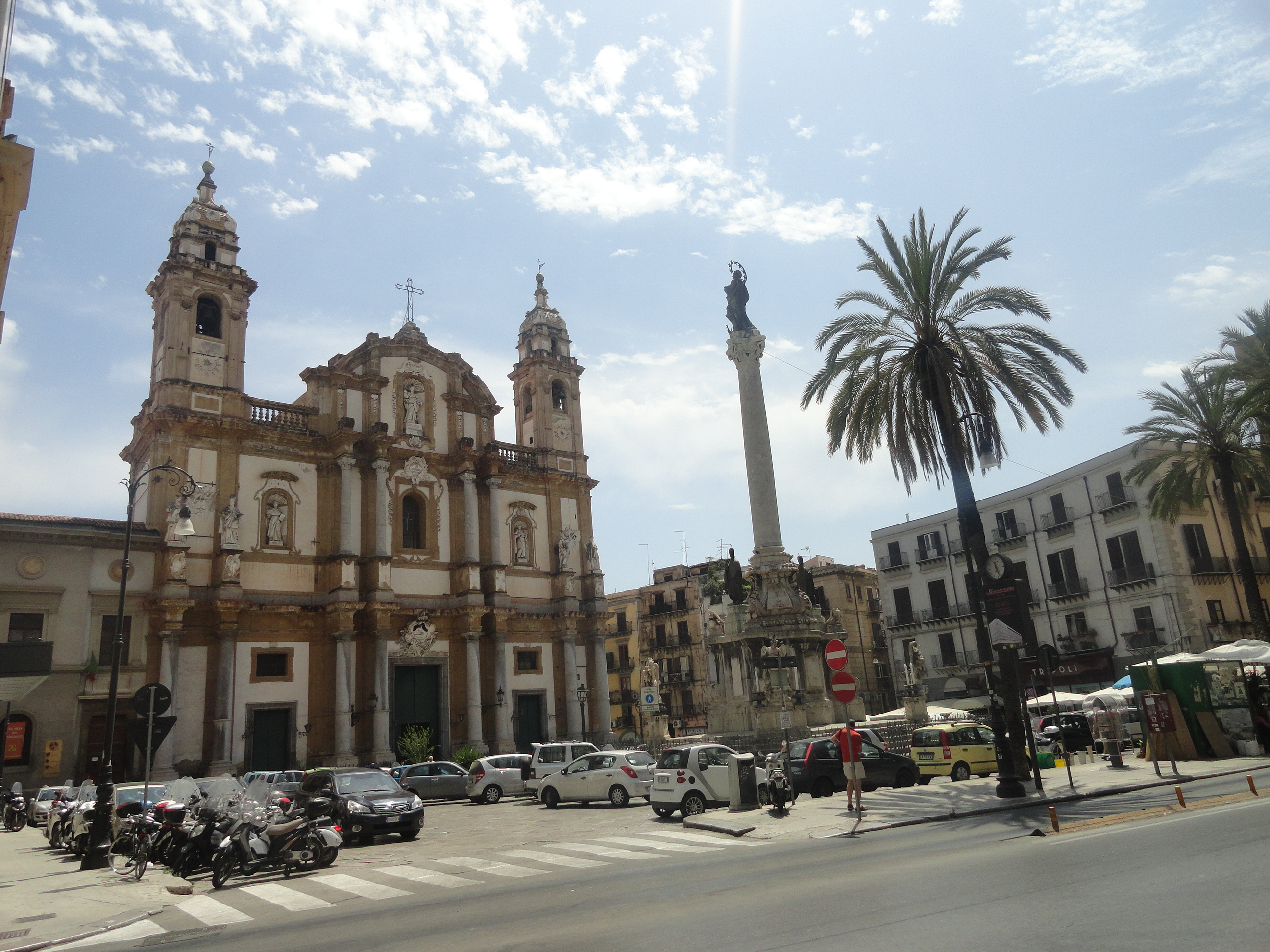 Basilica San Domenico view in the center of Palermo, Sicily. In front of it is the monument of S. Domenico. Check out some of our latest travel tips at